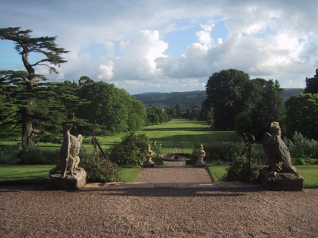 Summer evening view, from the crushed stone terrace, of the broad landscape avenue-allee garden of Knightshayes Court, Tiverton, Devon, England.